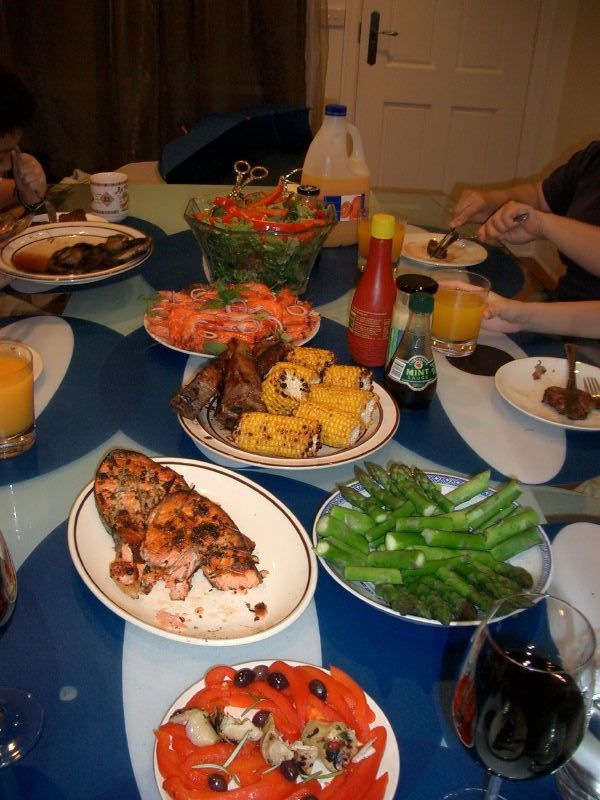 Author quoting: "BBQ Dinner Aunt Lay Leong, Uncle Cheng, Jean Ni, JX, Ning, Julia and Alpha. We went shopping at the Queen Victoria Markets in the morning and came home laden with porterhouse and fillet steaks, lamb cutlets, salmon cutlets, which were grilled with Julia's preserved lemon and oregano marinade, and the freshest asparagus you could imagine! Ning got juicy sweet corn from Box Hill which we grilled on the barbie as well. Oh don't forget the kilo of freshly cooked prawns and the antipasto, including grilled red capsicums, artichokes and Ligurian olives! All washed down with fresh orange juice from the market and Liebichwein 2002 Potter's Merlot. We couldn't go past the sweet, ripe and magnificently fragrant mangoes that are just coming into season. (not shown) We also got a fantastically ripened King Island Double Brie and a King Island Surprise Bay Vintage Cheddar. (not shown) Suffice to say, we over-ate, again!"